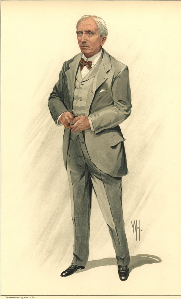 Carter, John Corrie (1840-1927) - “Steered Three Winning Crews”.